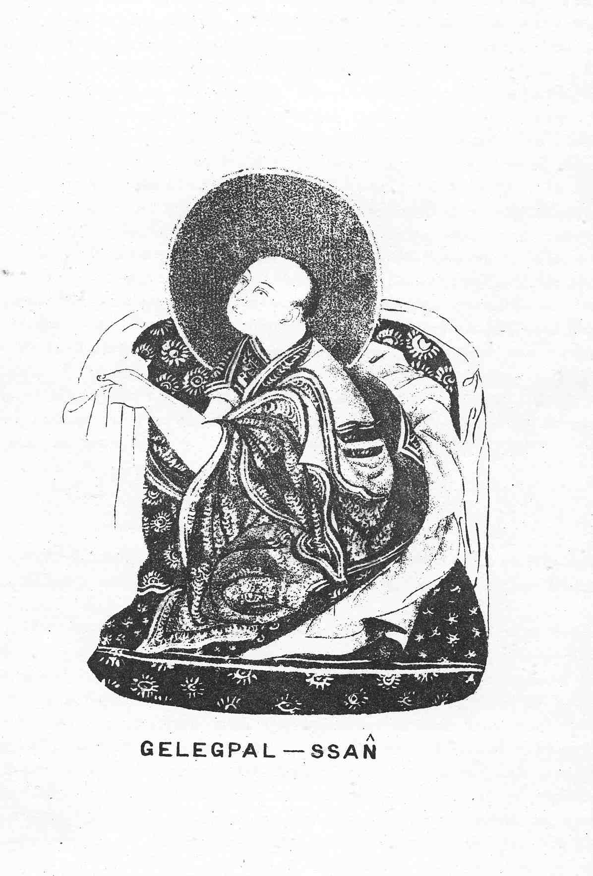 Image taken from a publication by Sarat Chandra Das (1849-1917), "Contributions on Tibet", in the Journal of the Asiatic Society of Bengal Vol. LI (1882), so it is in the public domain. John Hill 04:09, 24 September 2007 (UTC)